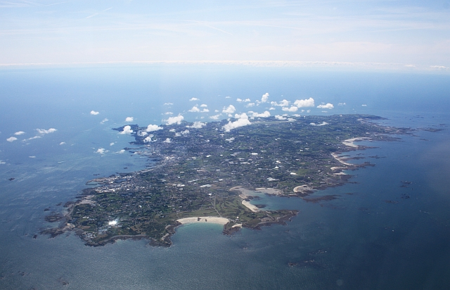 Guernsey from the air. Viewed from a flight from Gloucester to Jersey. Here we are looking at the sandy bay on the north coast of the island by the Royal Guernsey Golf Club.